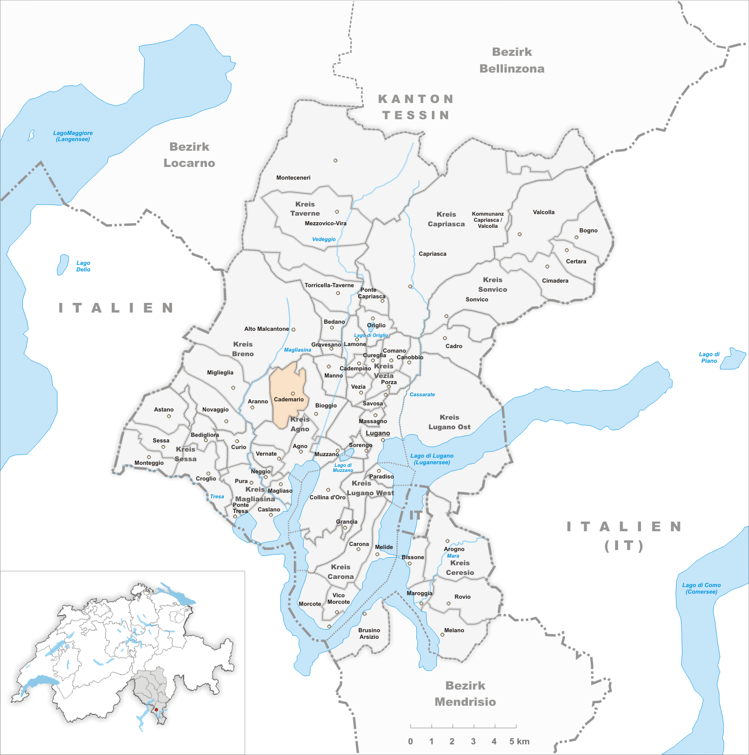 Municipality Cademario